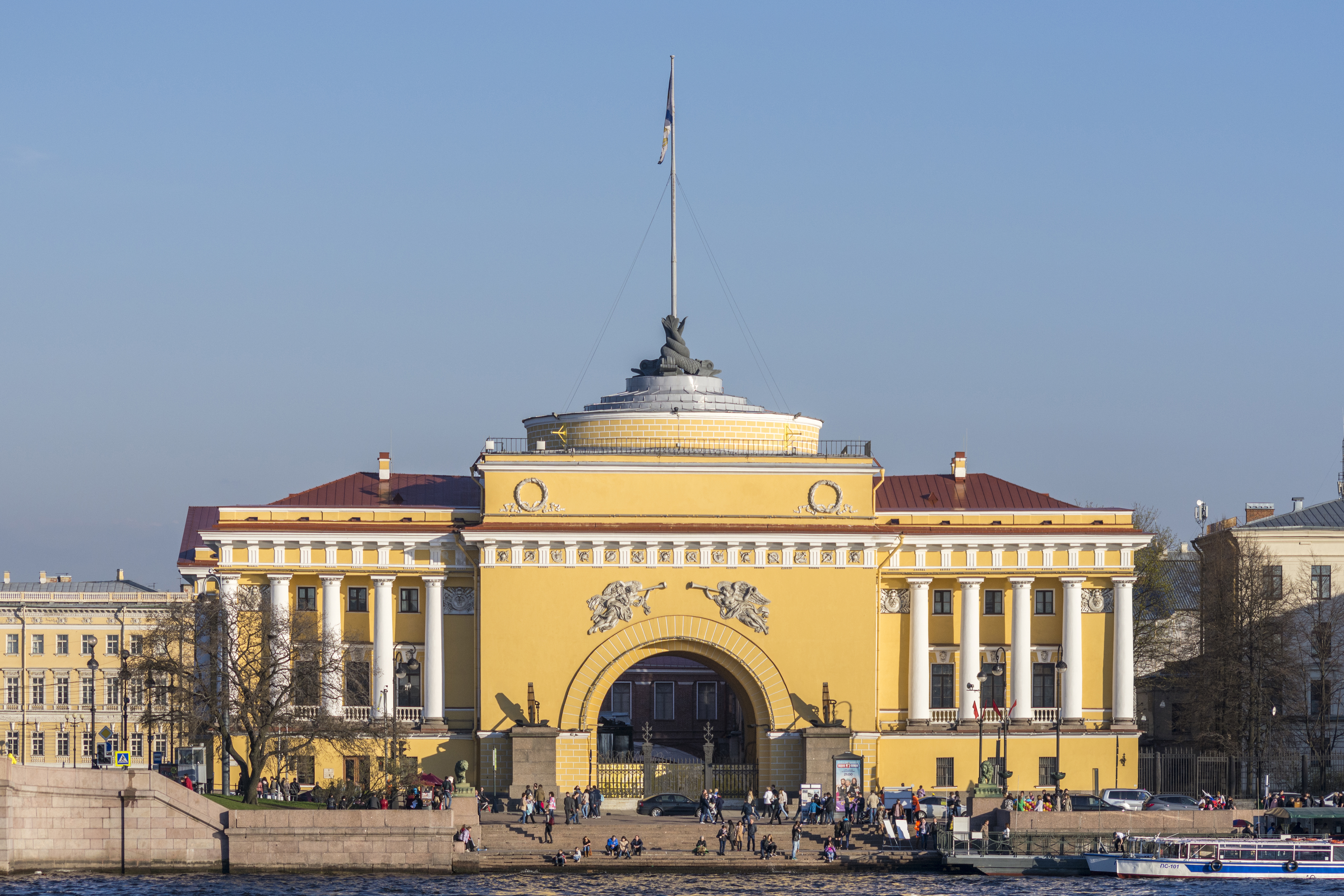 Admiralty in Saint Petersburg, Eastern Wing